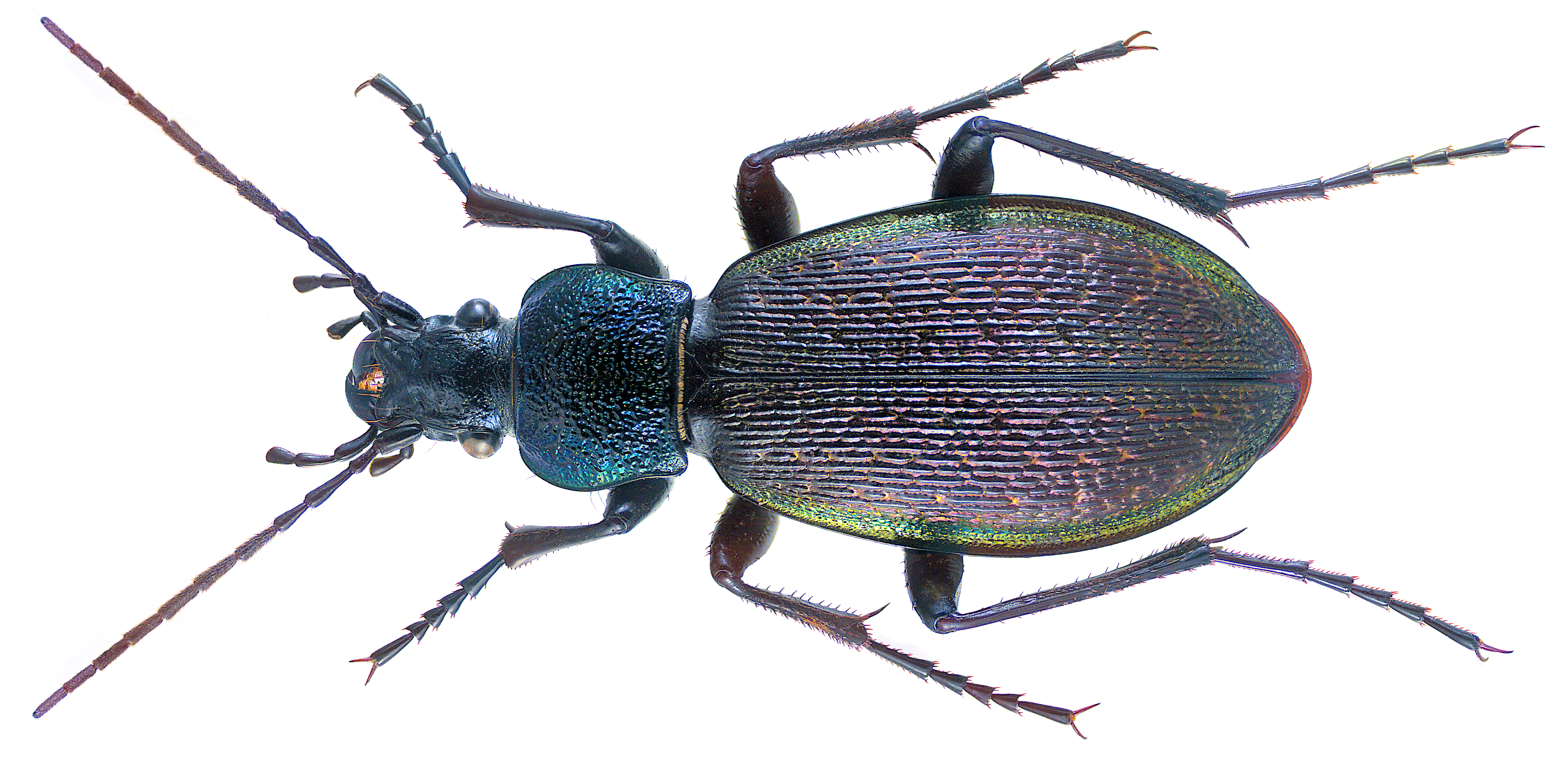 Family: Carabidae Size: 25 mm Location: Russia, Amur region, Maly Chingan Mountains, 500 m leg. A.Dantchenko, VI.1989; det. M.Hartmann, 2015 Photo: U.Schmidt, 2016